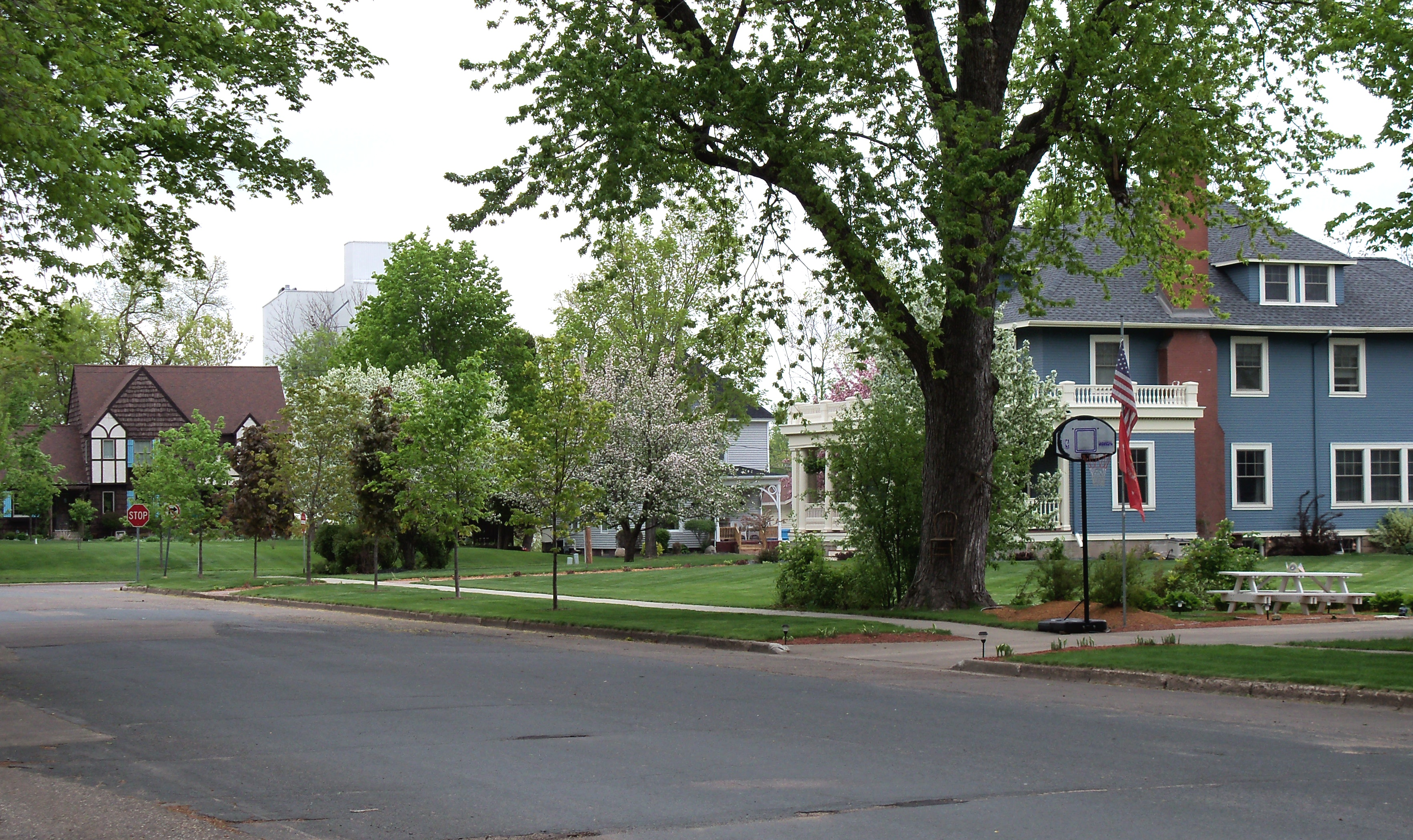 New Richmond North Side Historic District in New Richmond, Wisconsin, USA.